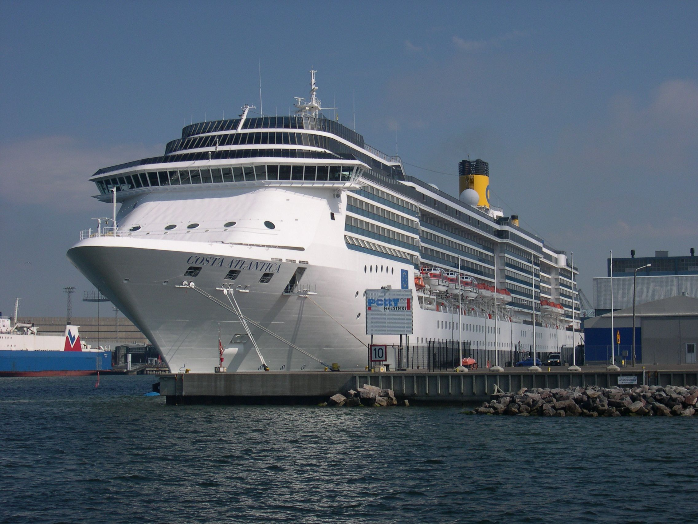 Image title: Costa Atlantica in port at Helsinki Image from Public domain images website